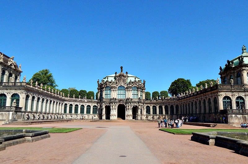 View of Zwinger.